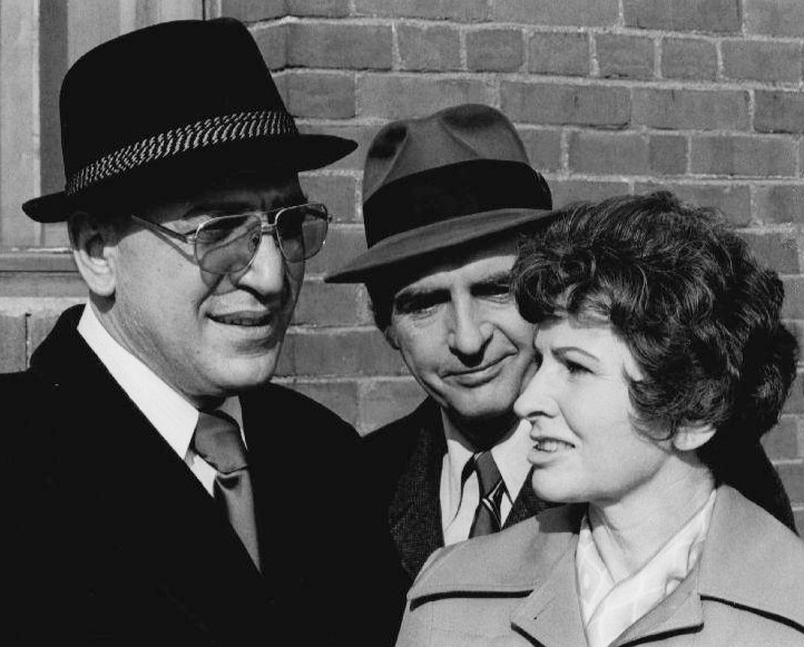 Photo of Telly Savalas, Dan Frazer and Jean LeBouvier from the television program Kojak.